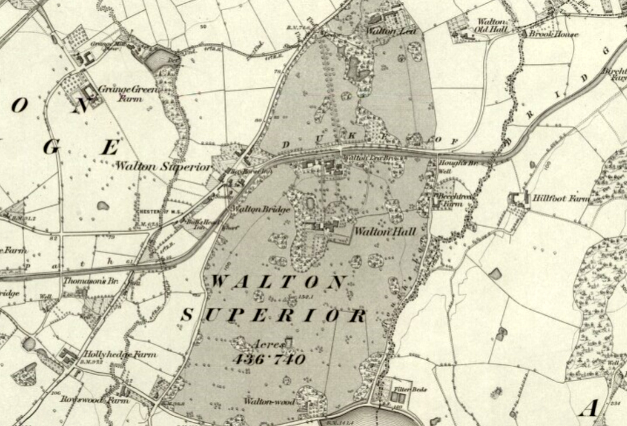 Ordnance Map of Walton near Warrington 1882